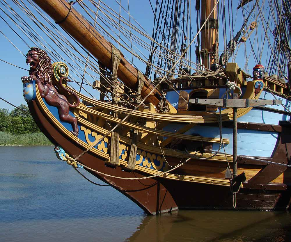 The bow of the Kalmar Nyckel, a replica built in 1997 of the 1625 ship that carried the Swedish settler's that established New Sweden in 1628, now the modern city of Wilmington, Delaware, USA).